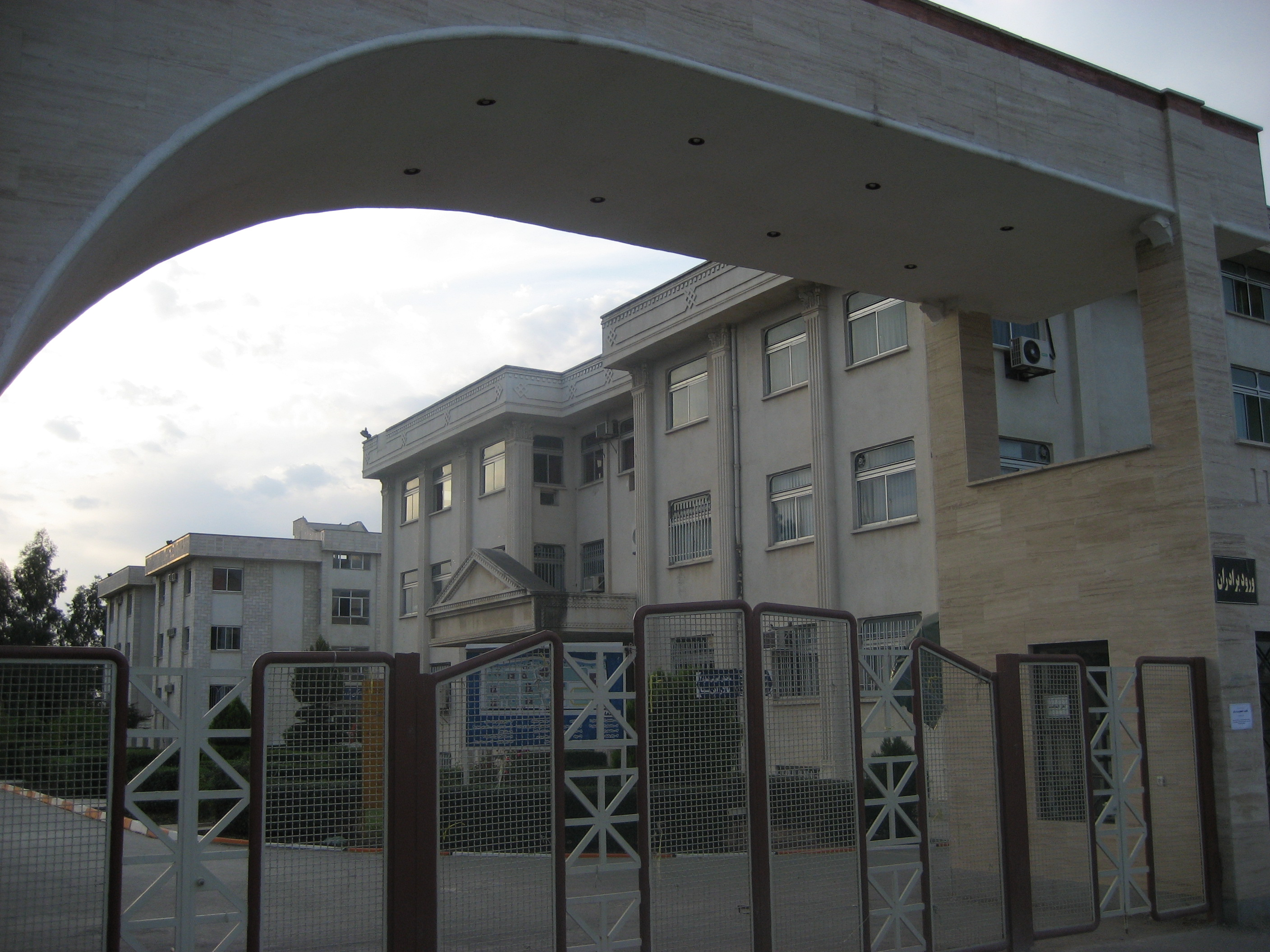 Azad University of Gorgan city in Iran. Taken by Mani Parsa